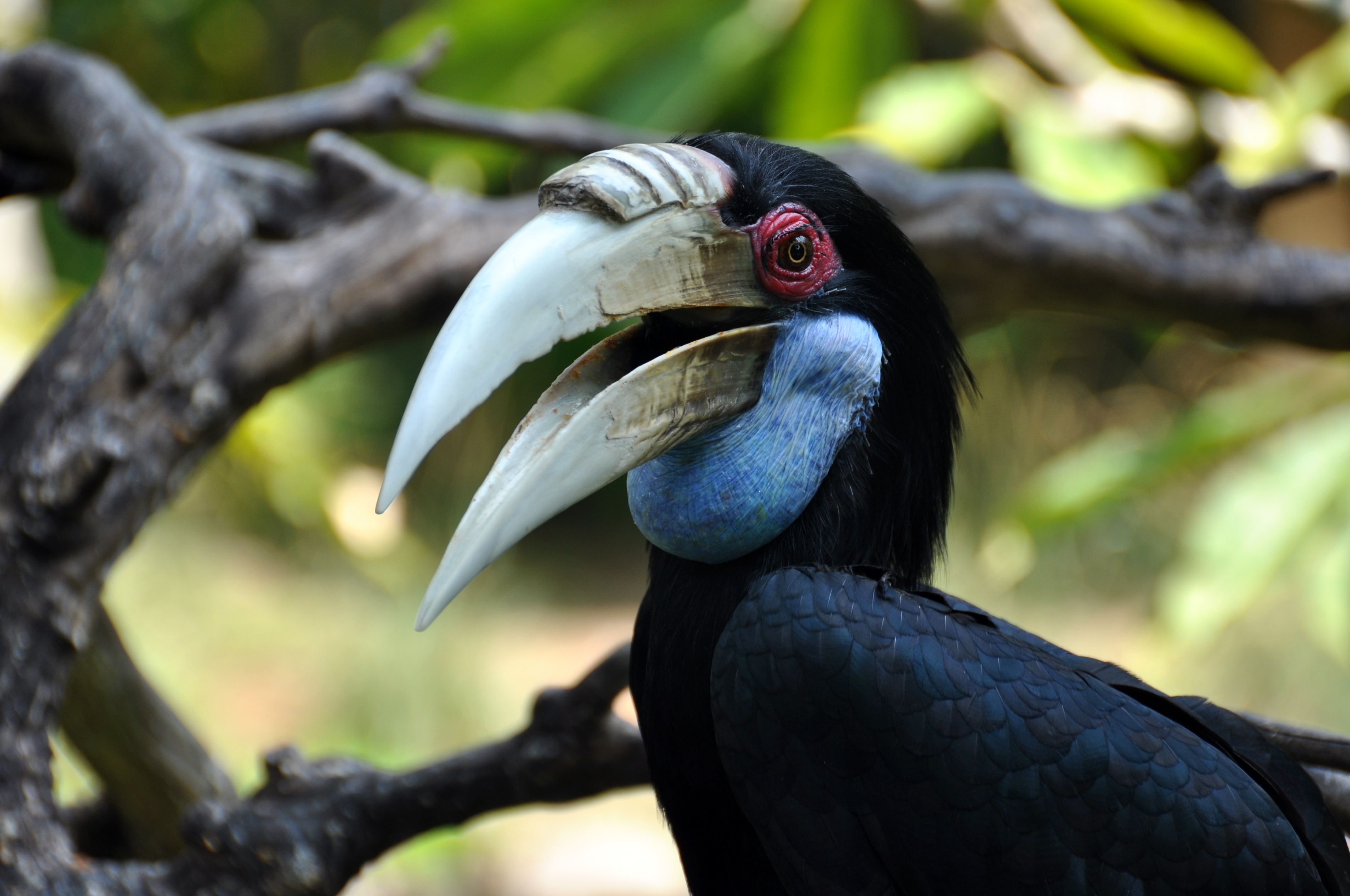 A female Wreathed Hornbill (also known as the Bar-pouched Wreathed Hornbill) at Bali Bird Park, Indonesia.